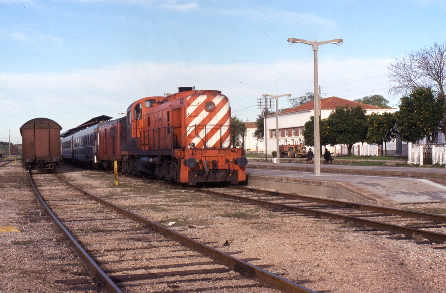 Seen at the junction station of Casa Branca, Alco built loco no. 1523 has taken over from a class 1200 on train IR892, 12:57 Évora to Barreiro. Date taken, 11 November 1993.